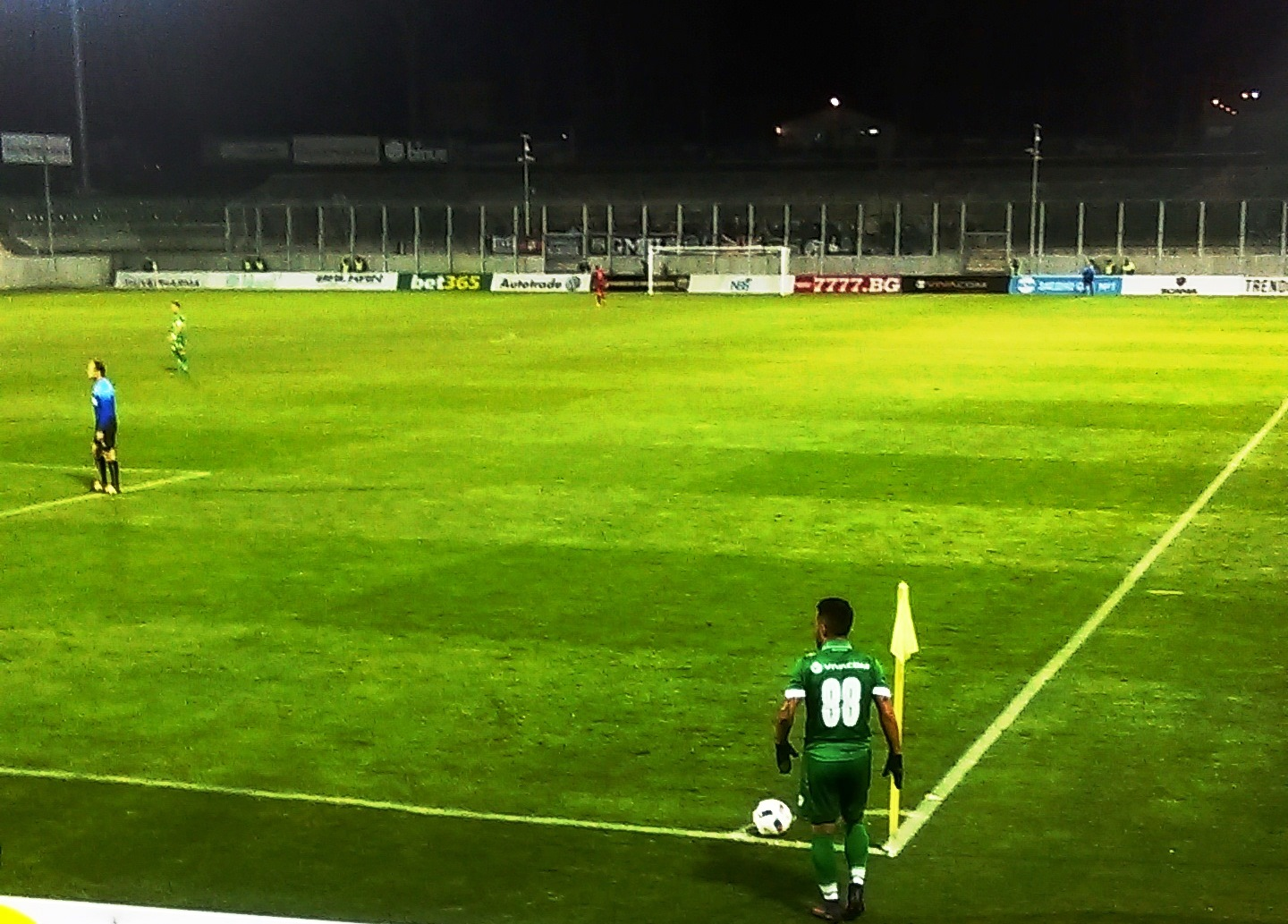 Brazilian footballer Wanderson Cristaldo Farias with Ludogorets FC